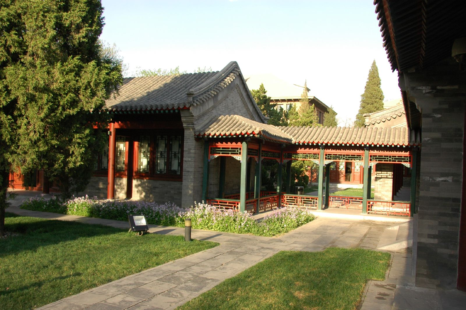 The Tsinghua University campus in Beijing, China